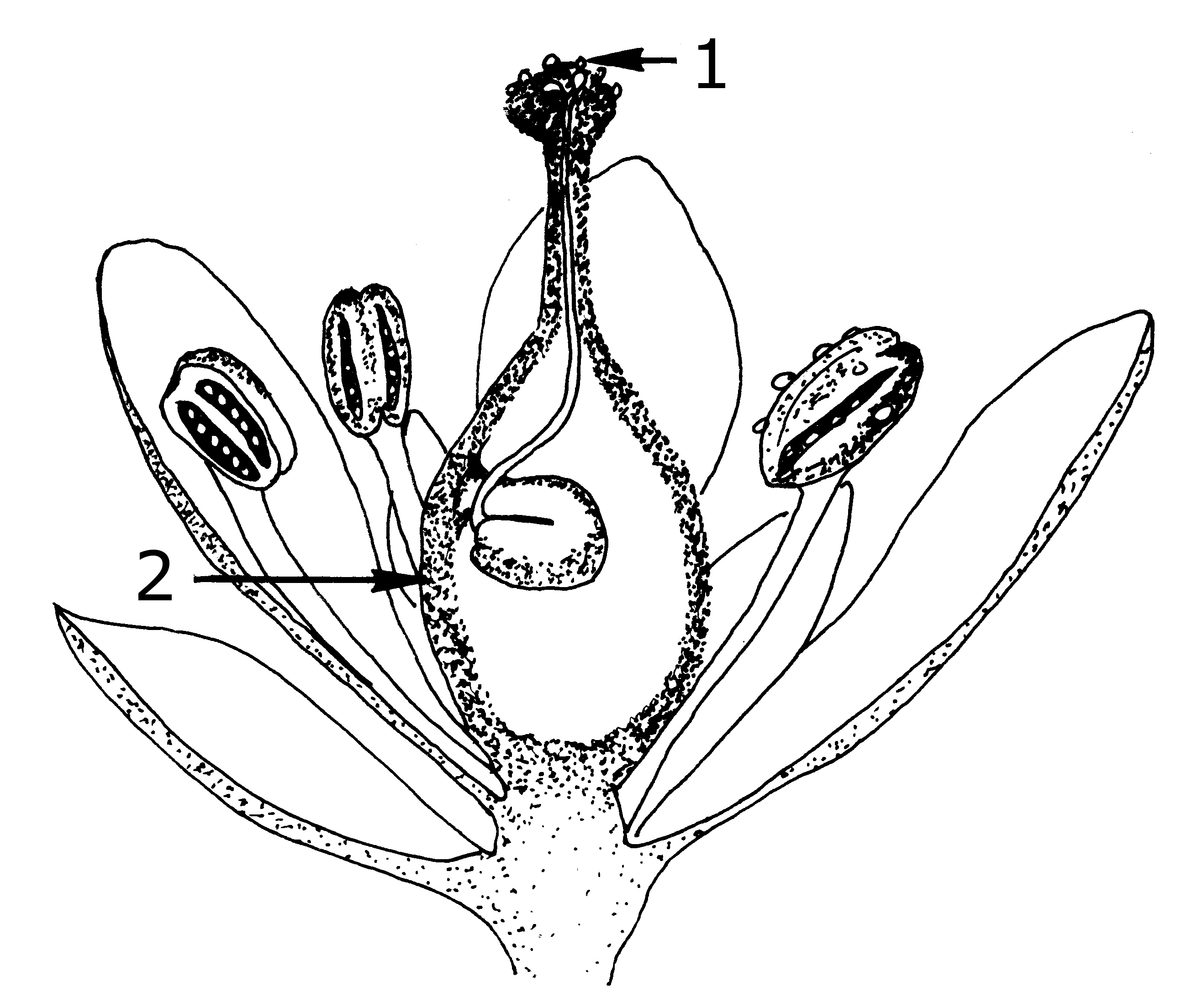 Line art drawing of a pistil Pollen grains Ovary